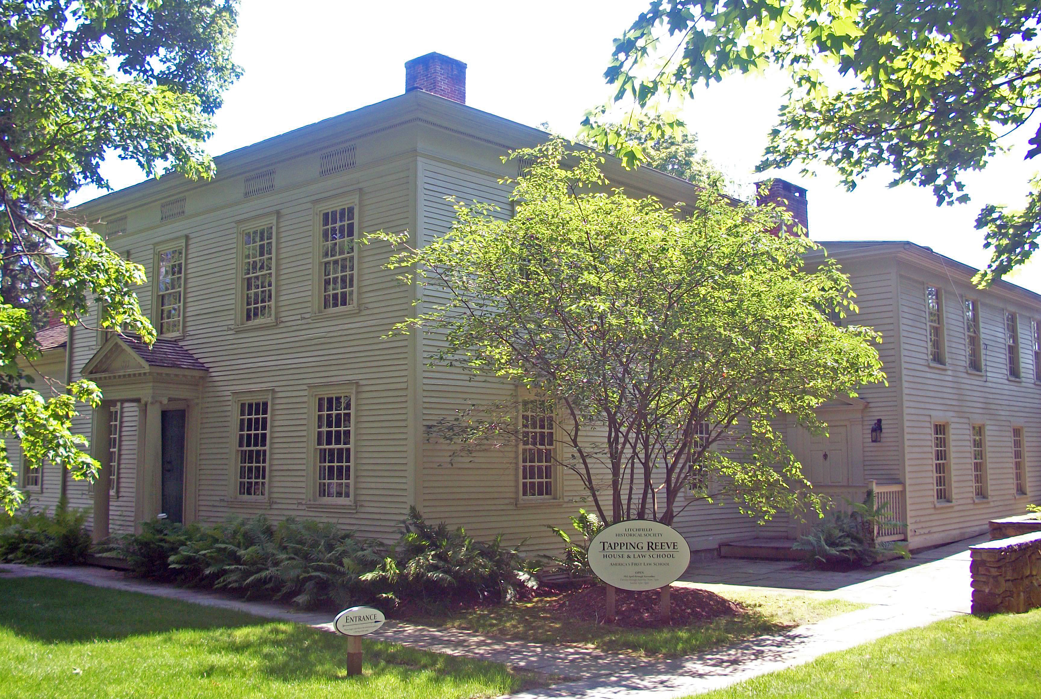 House of Tapping Reeve, founder of the first American law school, a National Historic Landmark in Litchfield, CT, USA